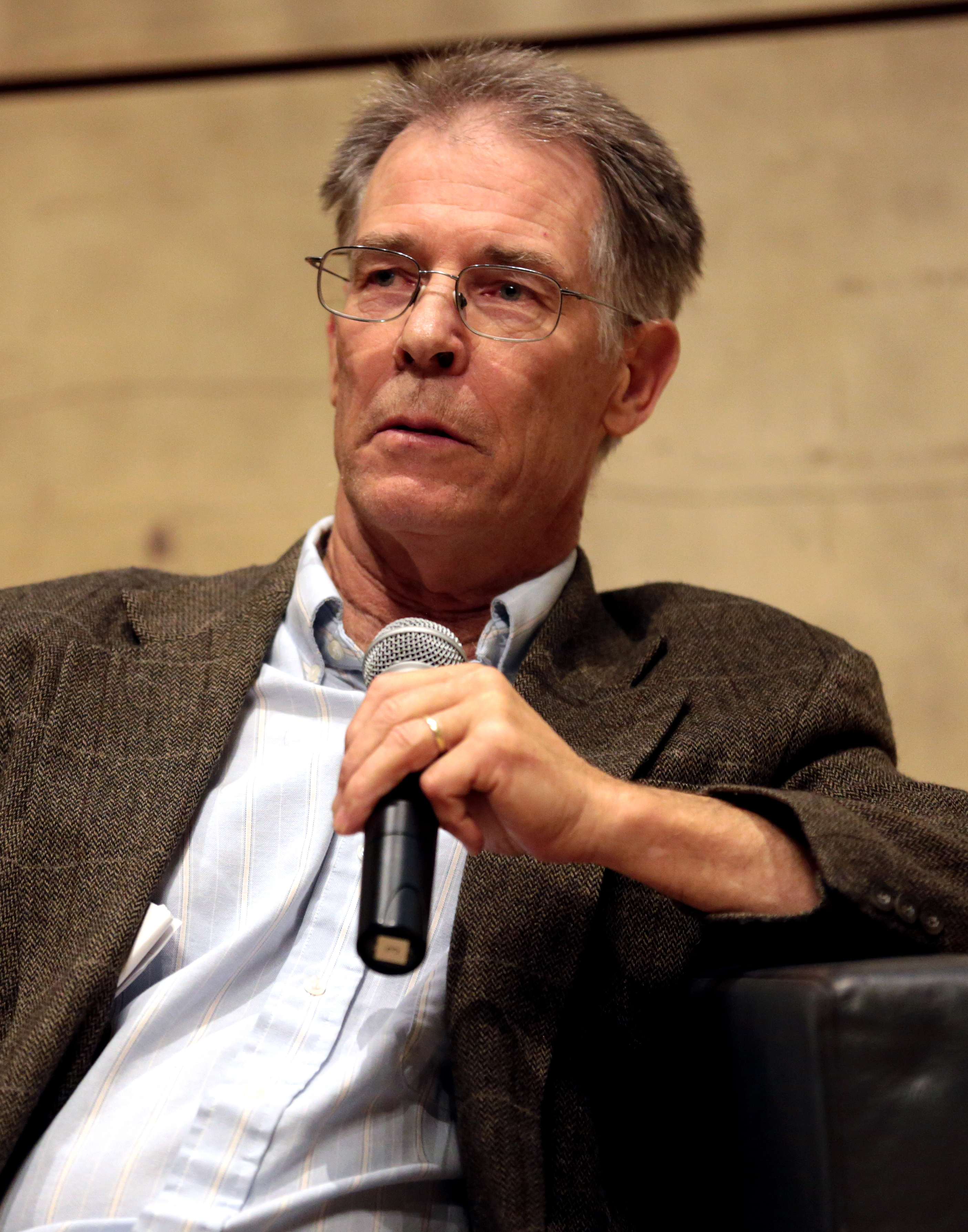 Kim Stanley Robinson speaking at an event in Phoenix, Arizona.